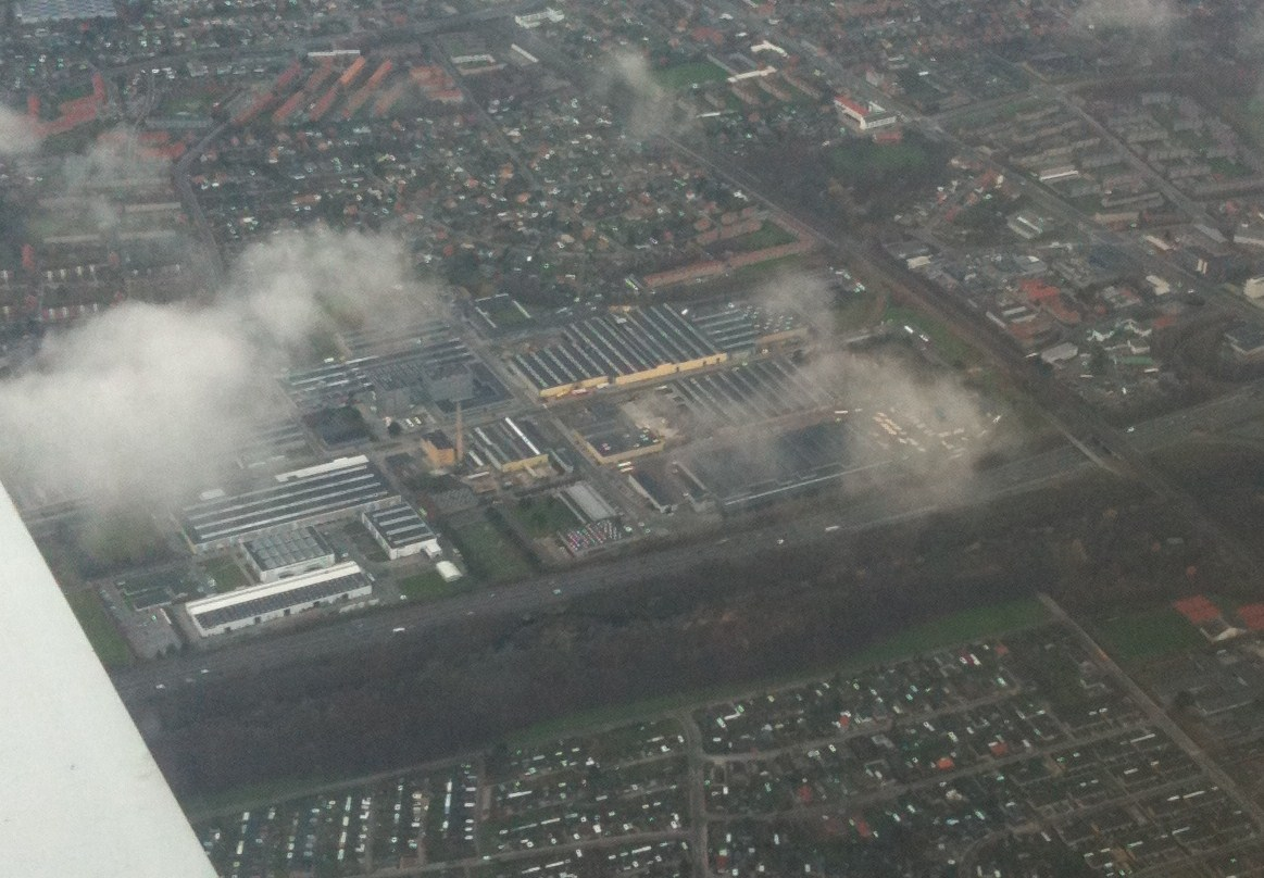 Priorparken, large business park west of Copenhagen, including the NKT Holding corporation.